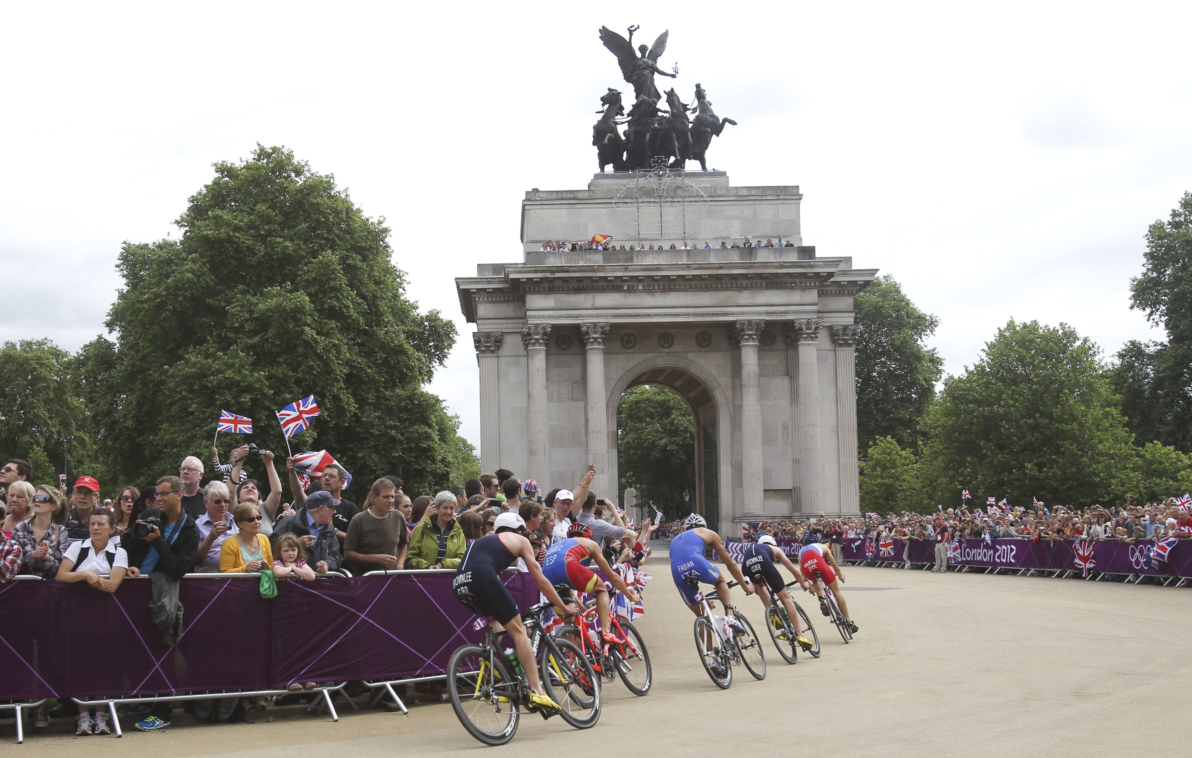 07.08.12 Action from the Triathlon Picture by David Poultney for GOC